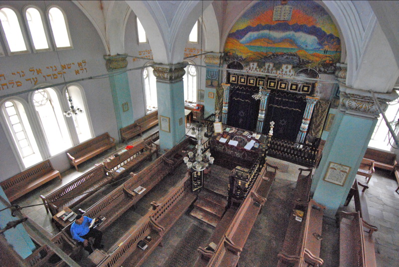 The Synagogue in Oni Georgia. The jewish new year.